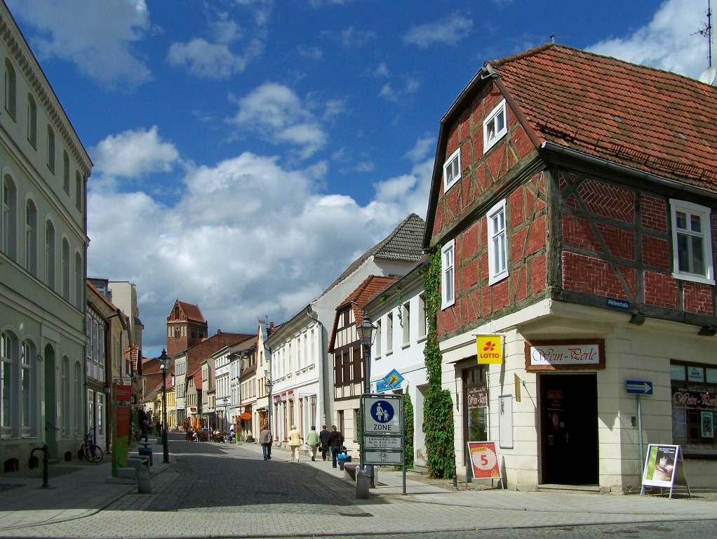 Perleberg: At the corner of the streets „Bäckerstraße“ (straight ahead) and „Mühlenstraße“ (to the right).